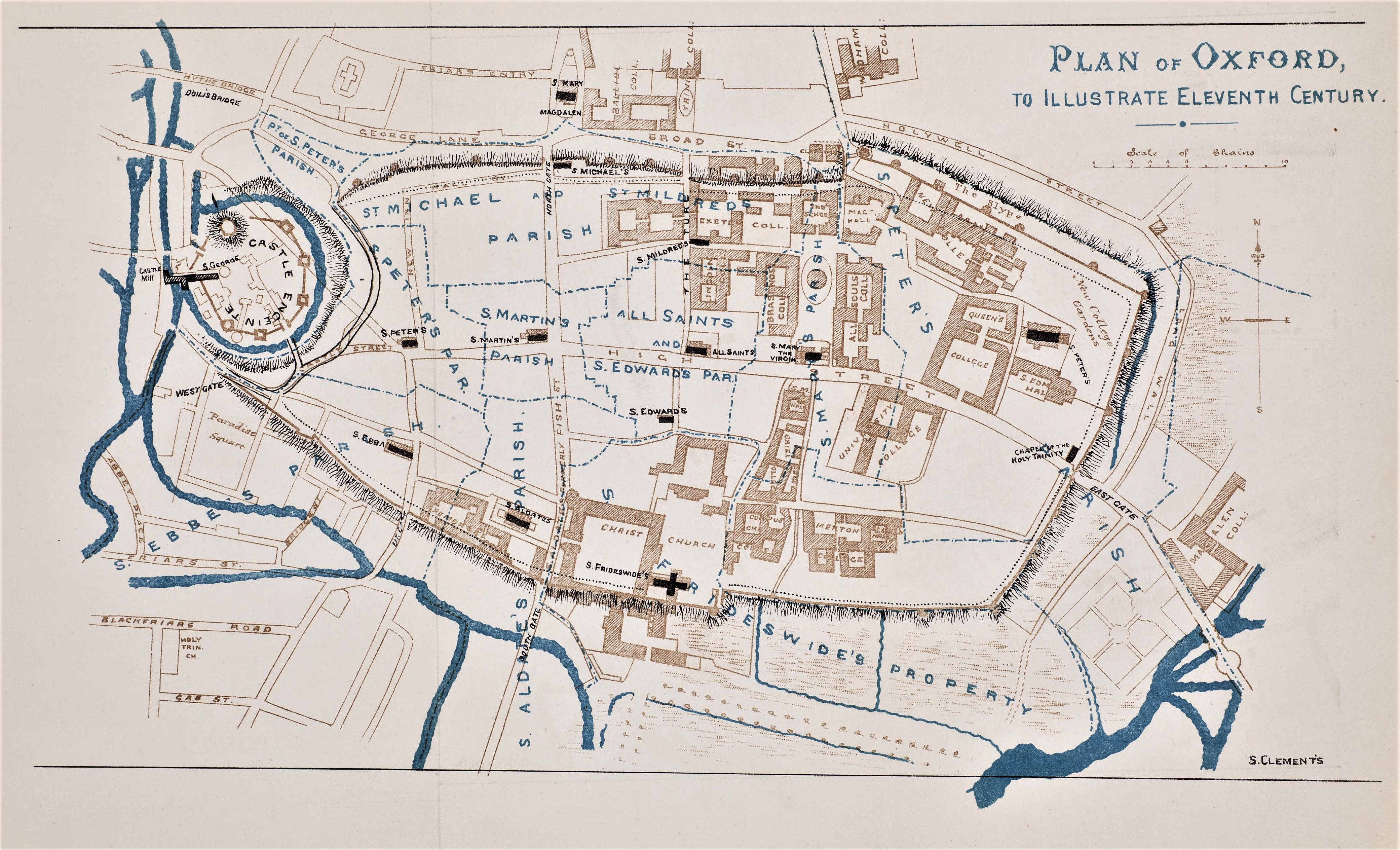 Map of 11th century Oxford